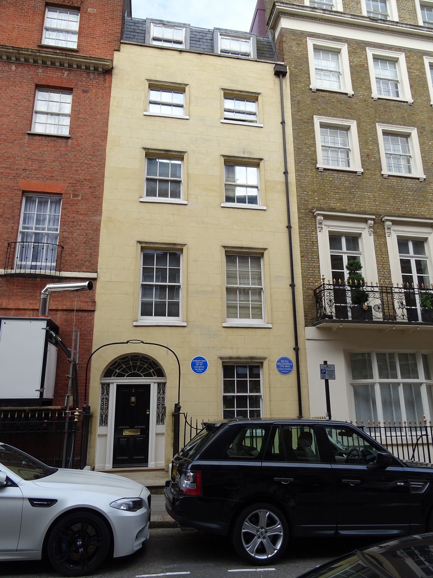 "Anthony Eden Lord Avon 1897-1977 Prime Minister of Great Britain lived here" - 4 Chesterfield Street, Mayfair, London W1J 5J